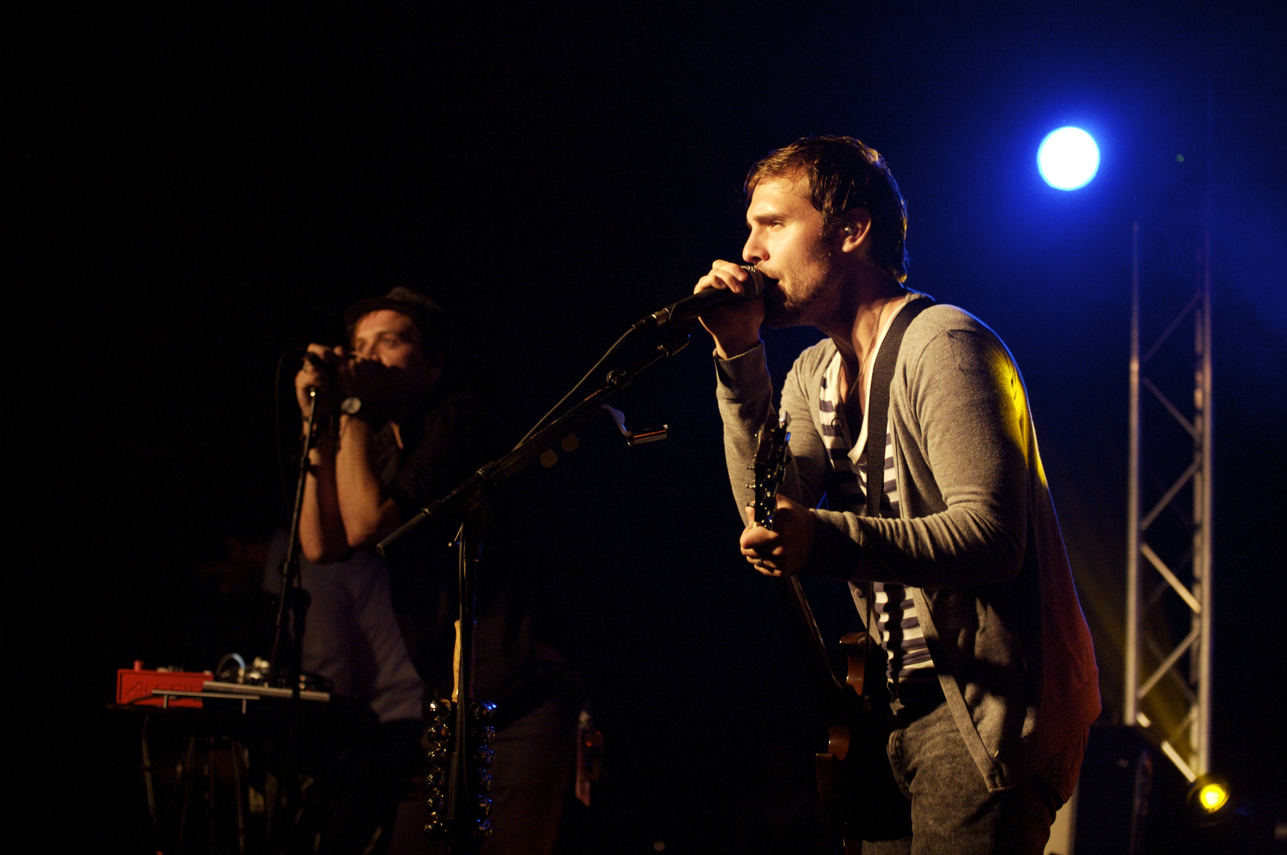 Paper Route playing live in Nashville.